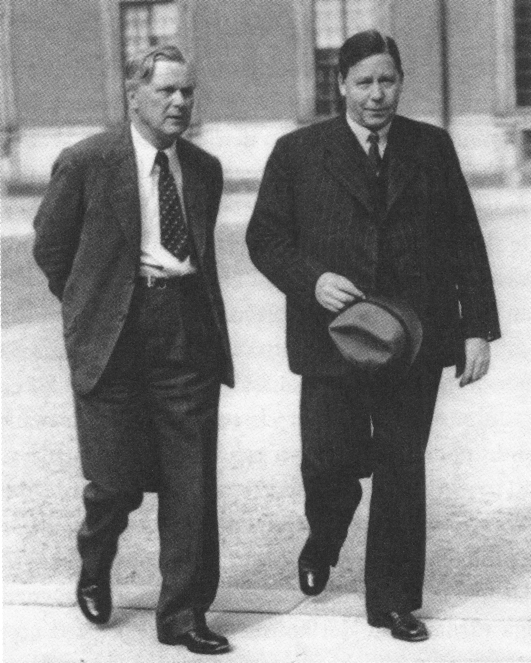 Gösta Bagge and Fritiof Domö, Swedish conservative politicians.